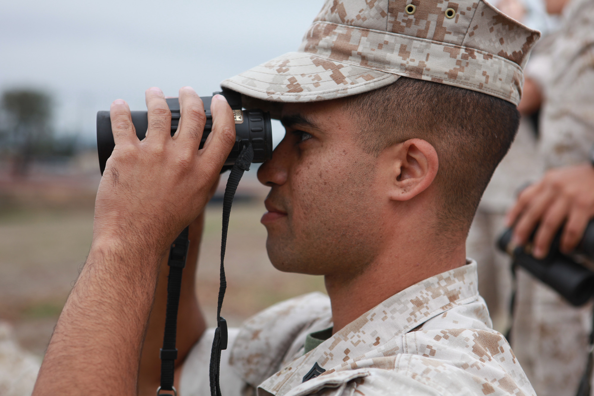 New Britain, Conn., native Gunnery Sgt. Ruben Rivera, 31, an administration chief clerk with I Marine Expeditionary Force(FWD), sights in on possible improvised explosive devices using Steiner binoculars during pre-deployment training at Camp Pendleton, Oct. 19. The day-long course educated Marines on IED’s and how to spot them.